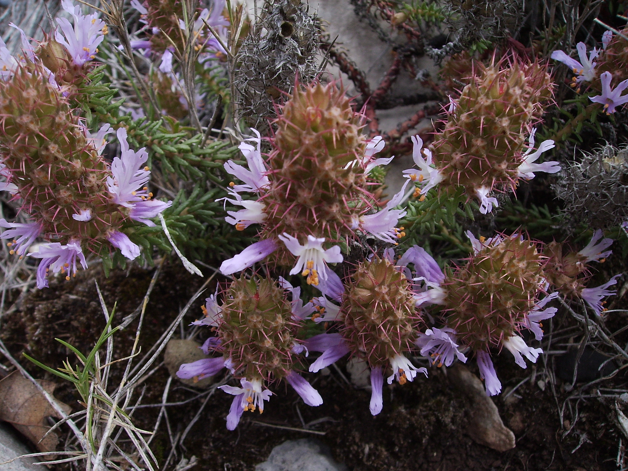 Coris moseliensis, Castelltallat, Catalonia